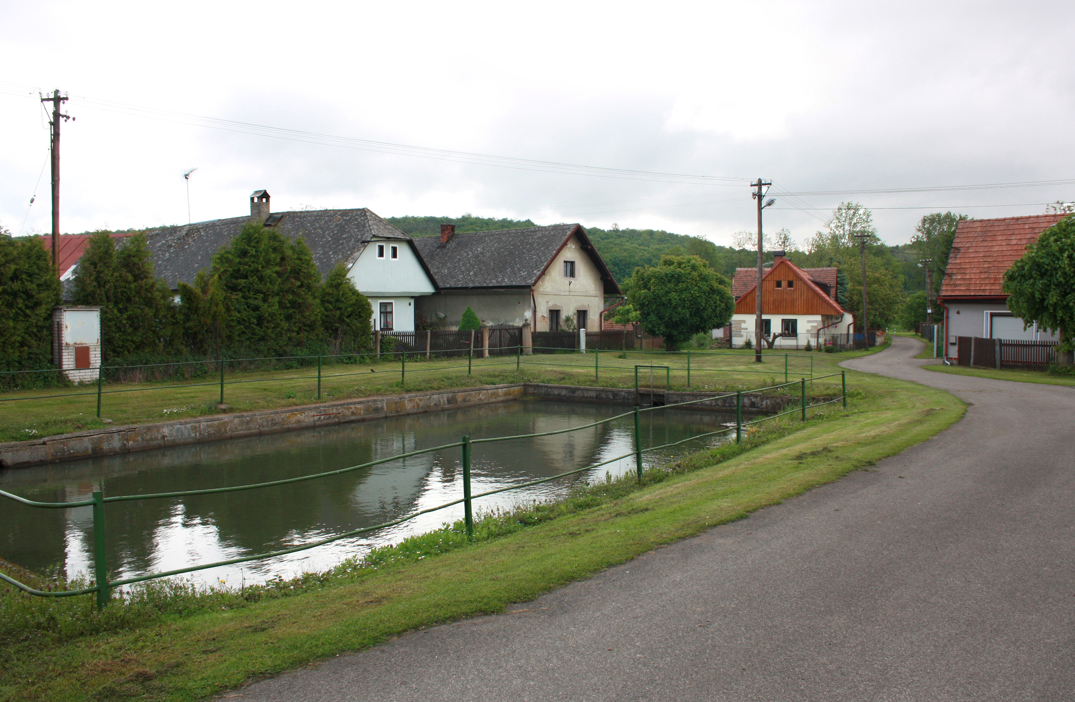 Common in Únětice, part of Údrnice village, Czech Republic